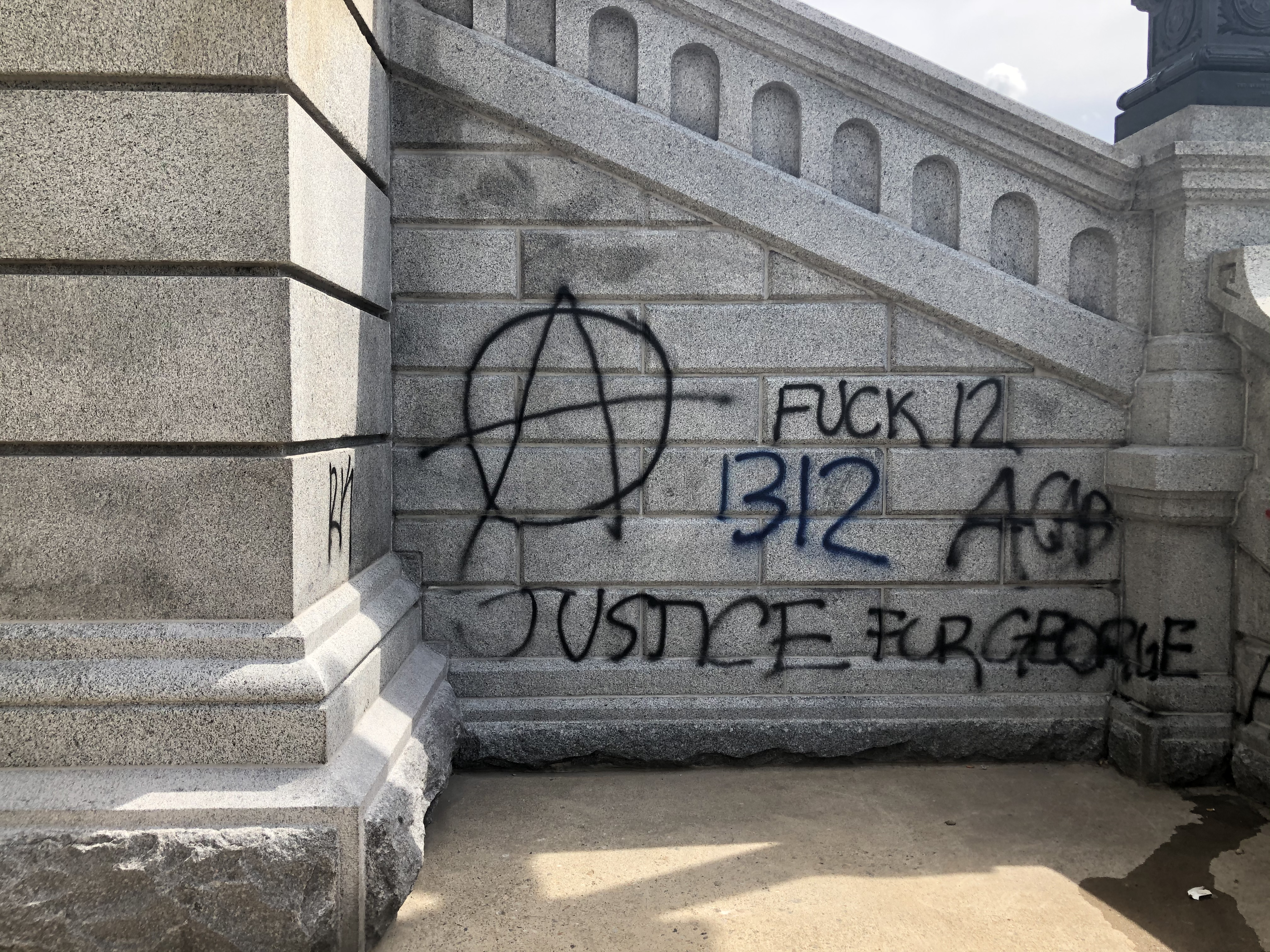 Denver Protest Aftermath May 30th